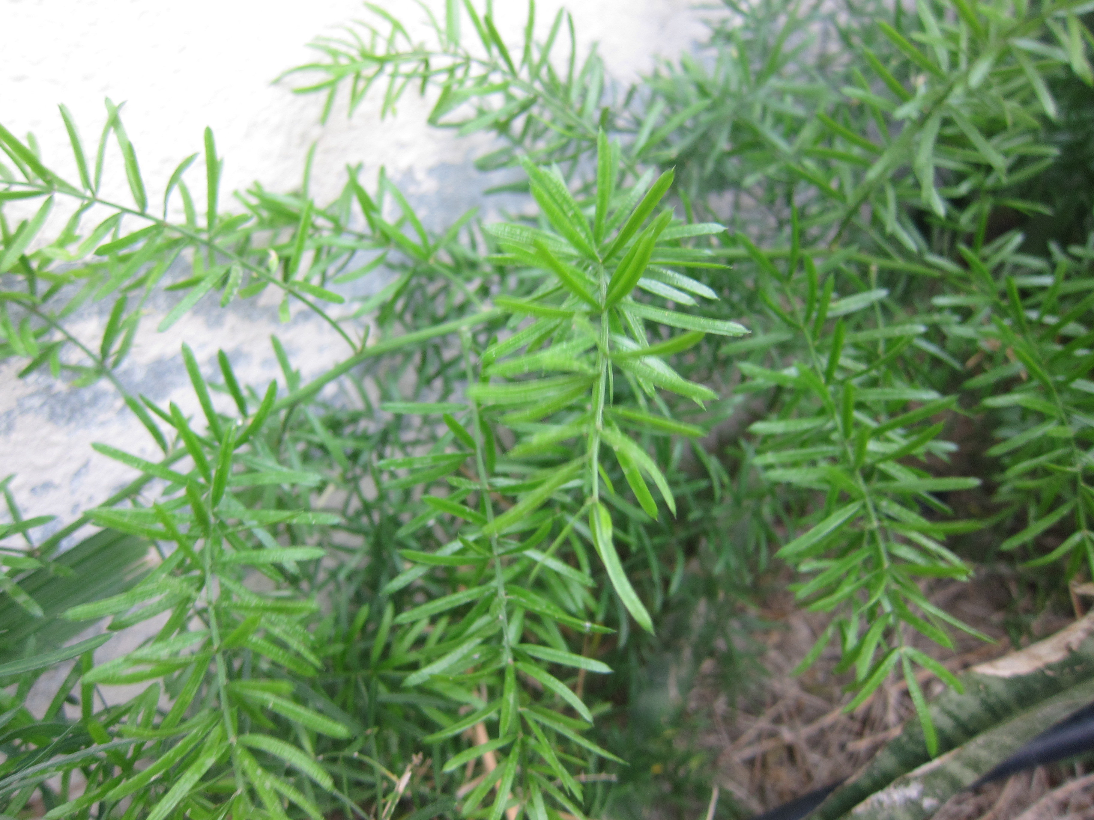 Asparagus racemosus - ശതാവരി